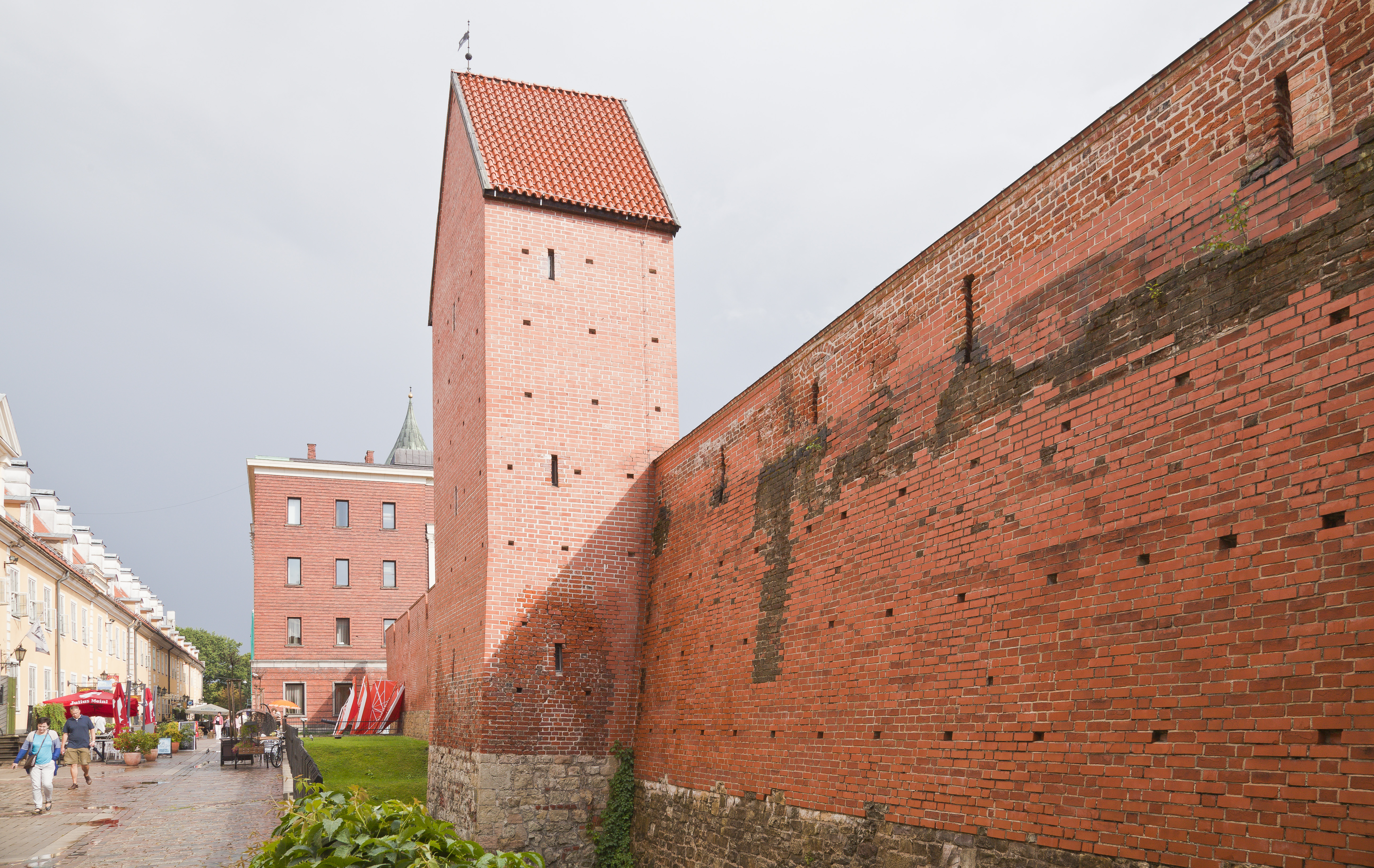 Jacob's Barracks, Riga, Latvia